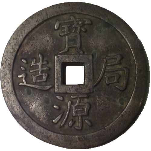 Vault Protector Coin of the Qing Dynasty, the inspections "寶源局造"(Bao Yuan Ju Zao) translates as "made by Board of Works Mint"